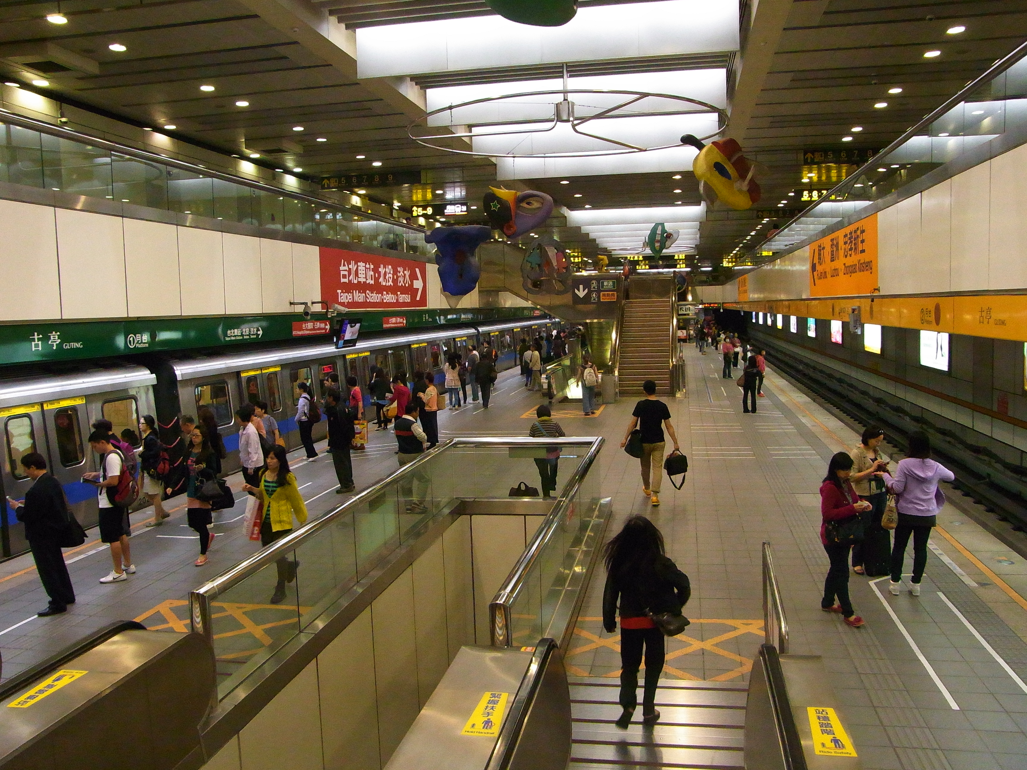 Upper platform in Guting of the Taipei metro.